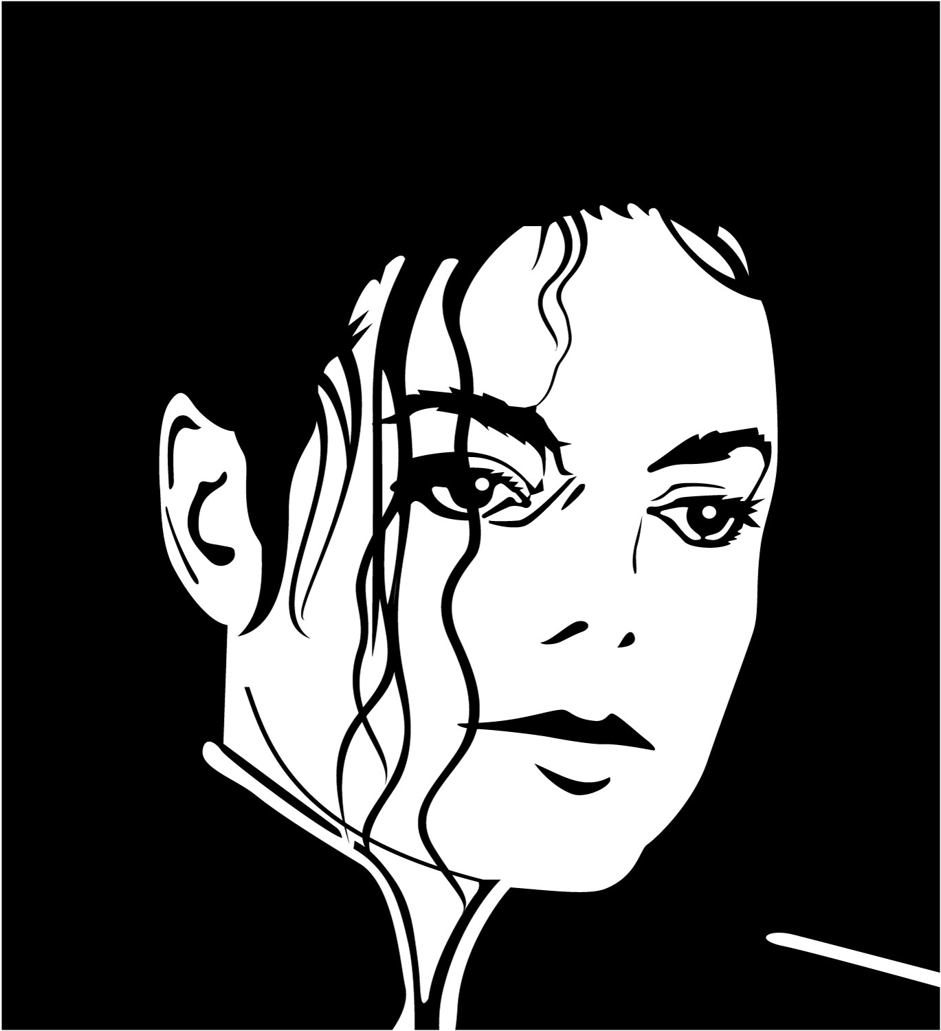 Michael Jackson Image.